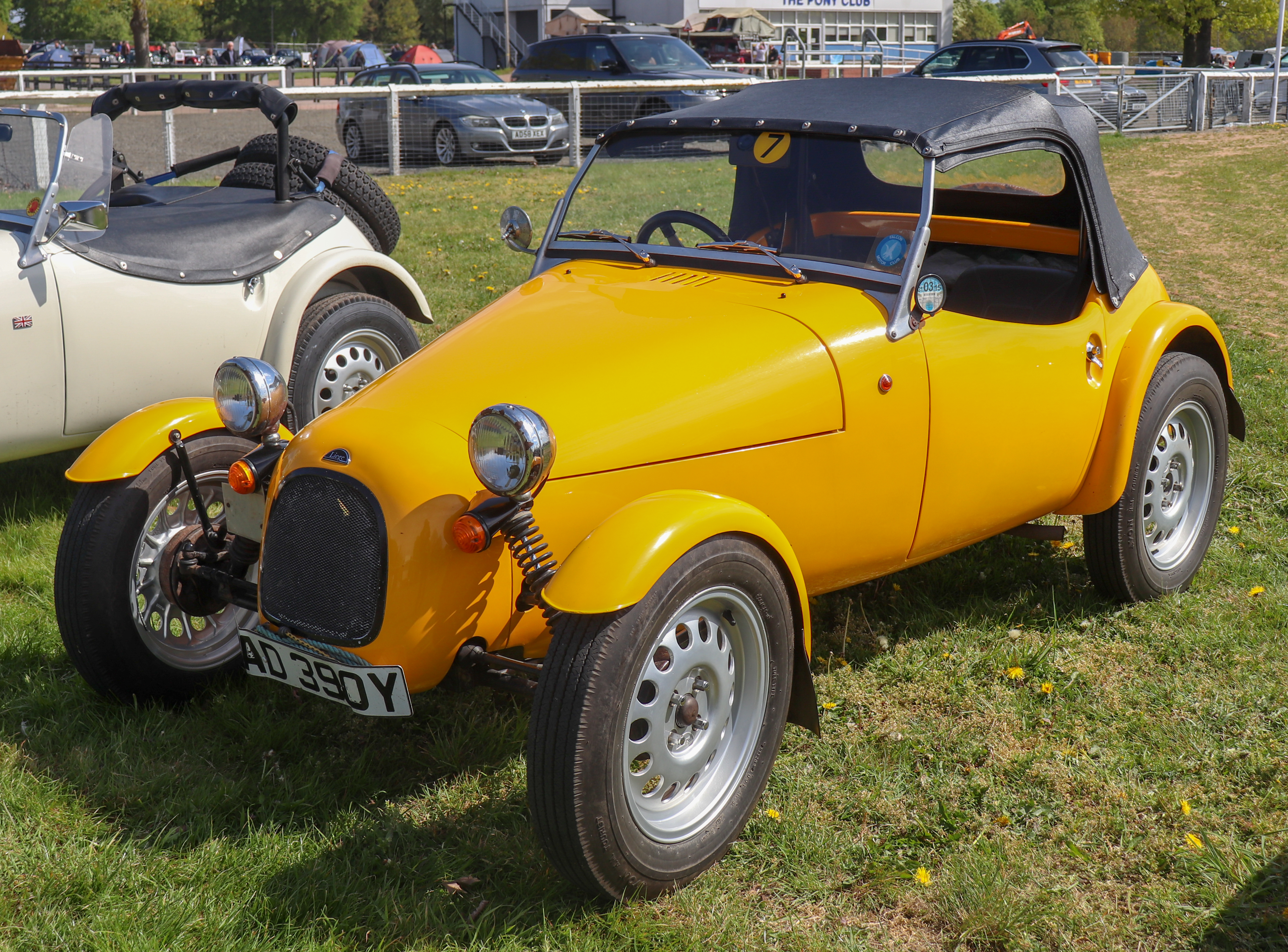 1982 (Donor) Liege SS 850 Front Taken at the Stoneleigh National Kit Car Motor Show 2019